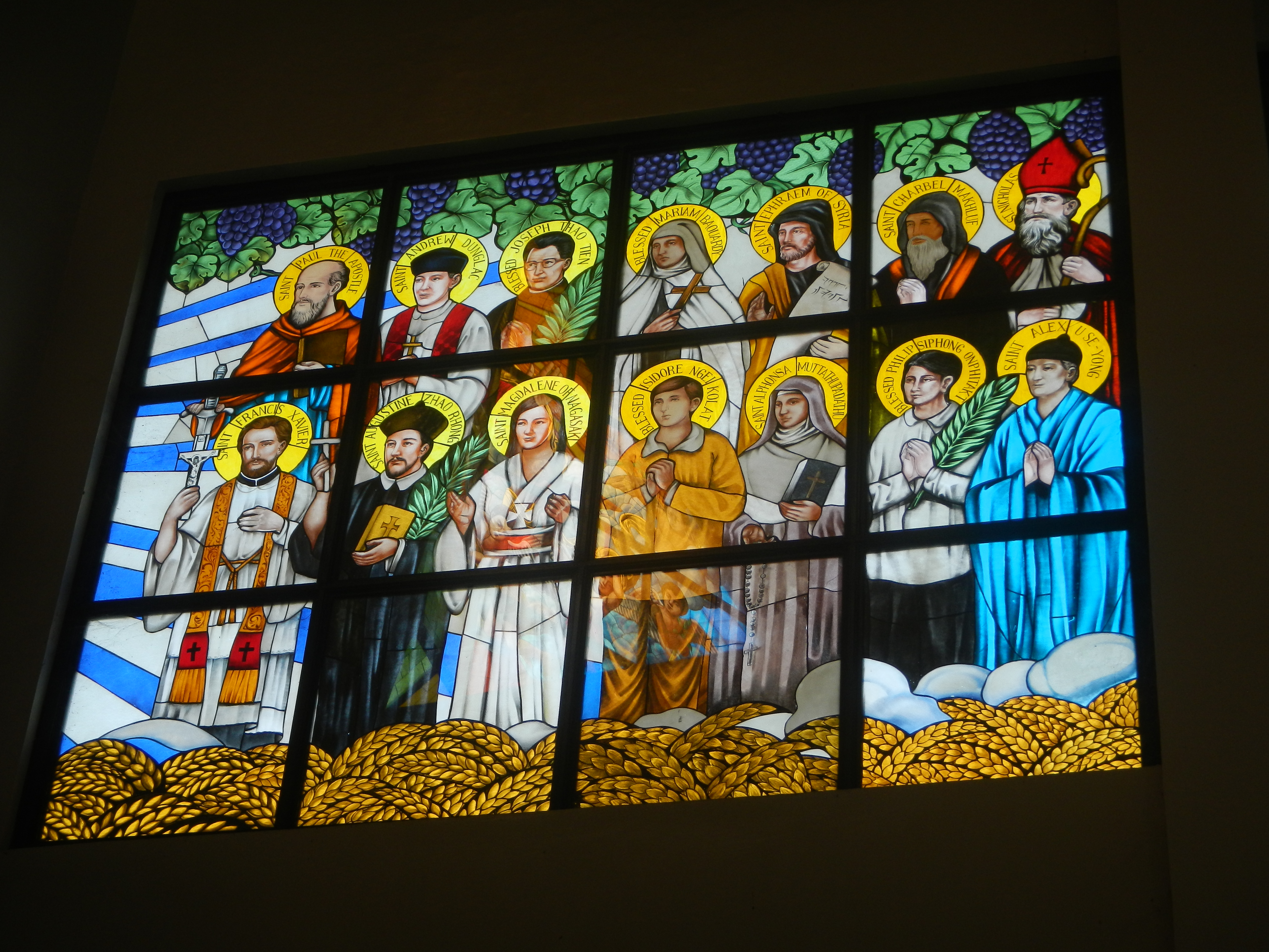 Confirmation in the Santo Cristo and Saint Andrew Kim Taegon Parish Church (Lolomboy, Bocaue, Bulacan) Confirmation (Catholic Church) Confirmation in Shrine of Saint Andrew Kim and Santo Cristo Andrew Kim Taegon Paul Chong Hasang Korean Martyrs in Barangay Lolomboy 14°46'46"N 120°56'14"E beside Bunlo, Bocaue, Bulacan along MacArthur Highway or Manila North Road) MacArthur Highway (Bocaue, Bulacan section) or Manila North Road on another side (Note: Judge Florentino Floro, the owner, to repeat, Donor Florentino Floro of all these photos hereby donate gratuitously, freely and unconditionally all these photos to and for Wikimedia Commons, exclusively, for public use of the public domain, and again without any condition whatsoever).